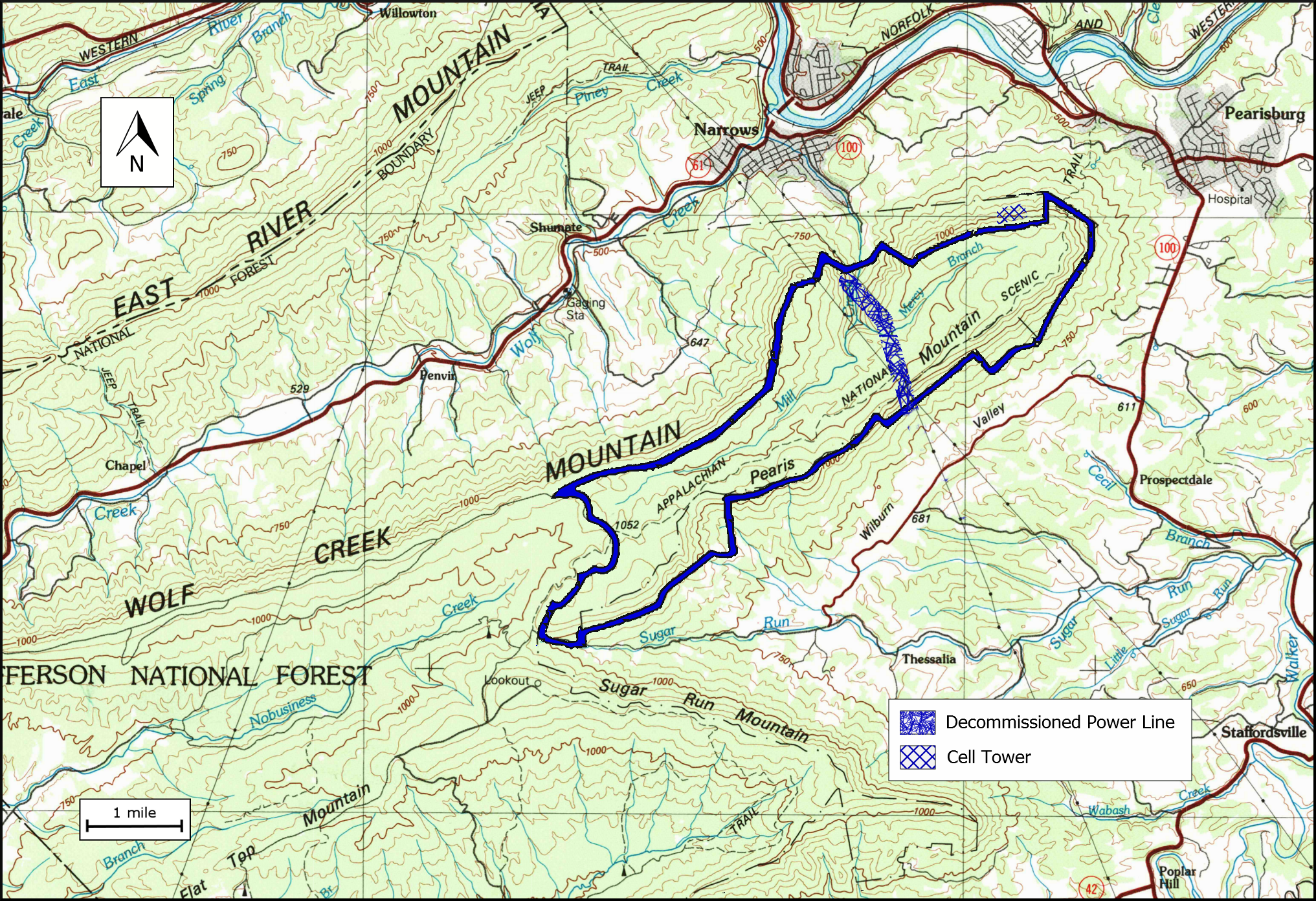 Boundary of the Mill Creek wildland in the Jefferson National Forest as identified by the Wilderness Society